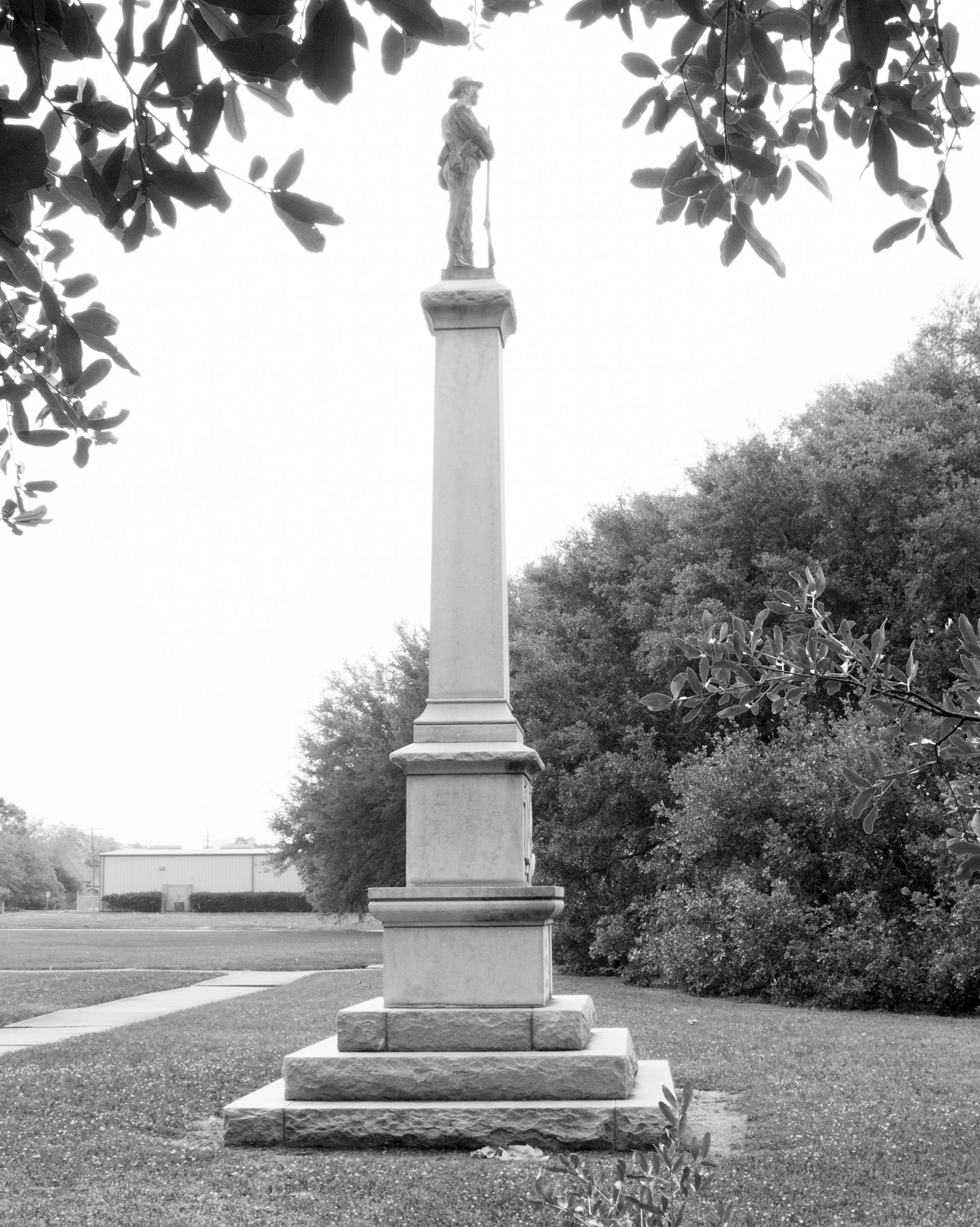 Confederate Monument, Wiess Park, Beaumont, Texas. The monument was relocated here from Keith Park in 1926.